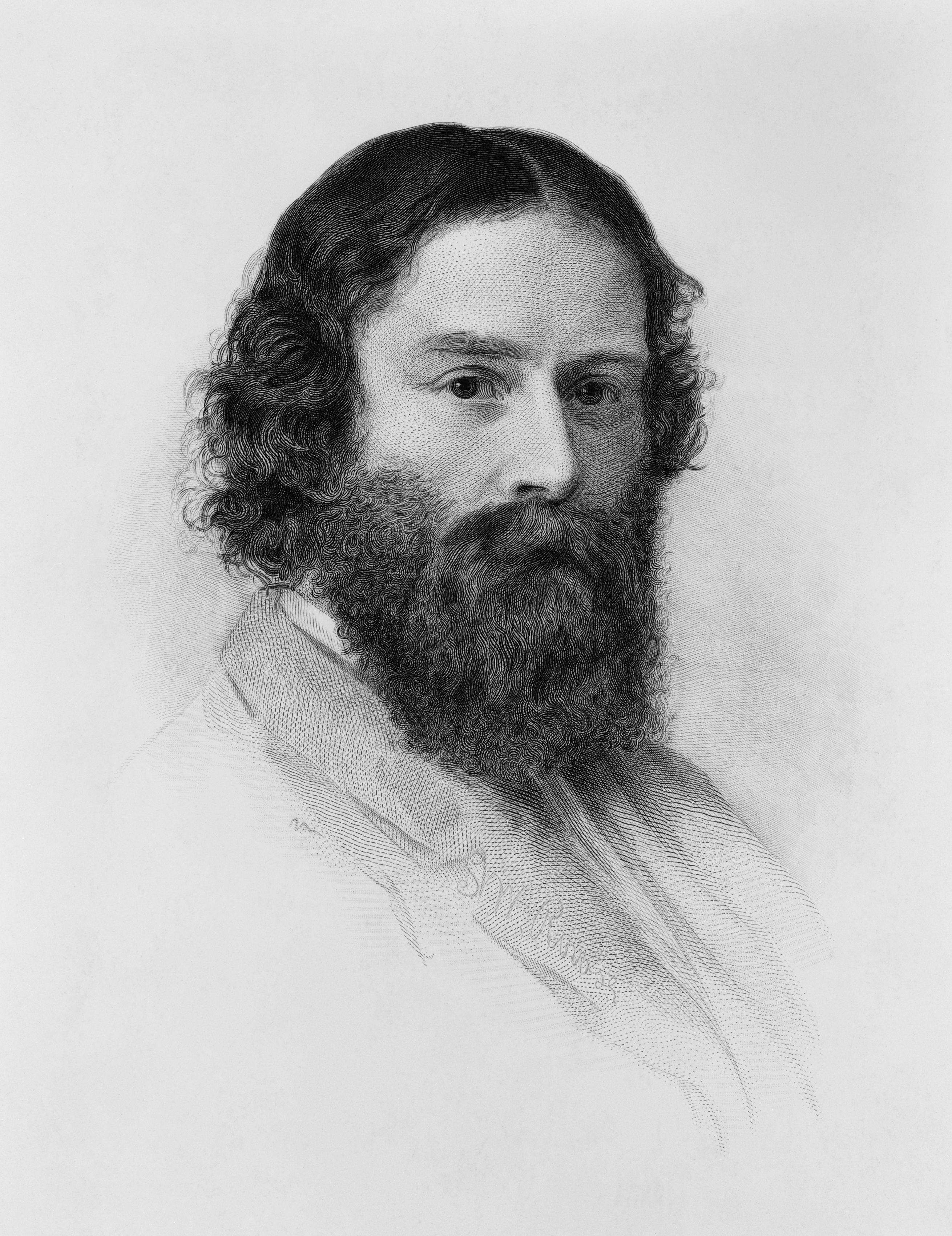 James Russell Lowell, head-and-shoulders portrait, facing right / engraved by J.A.J. Wilcox, from the original crayon in the possession of Charles Eliot Norton, drawn by S.W. Rowse in 1855